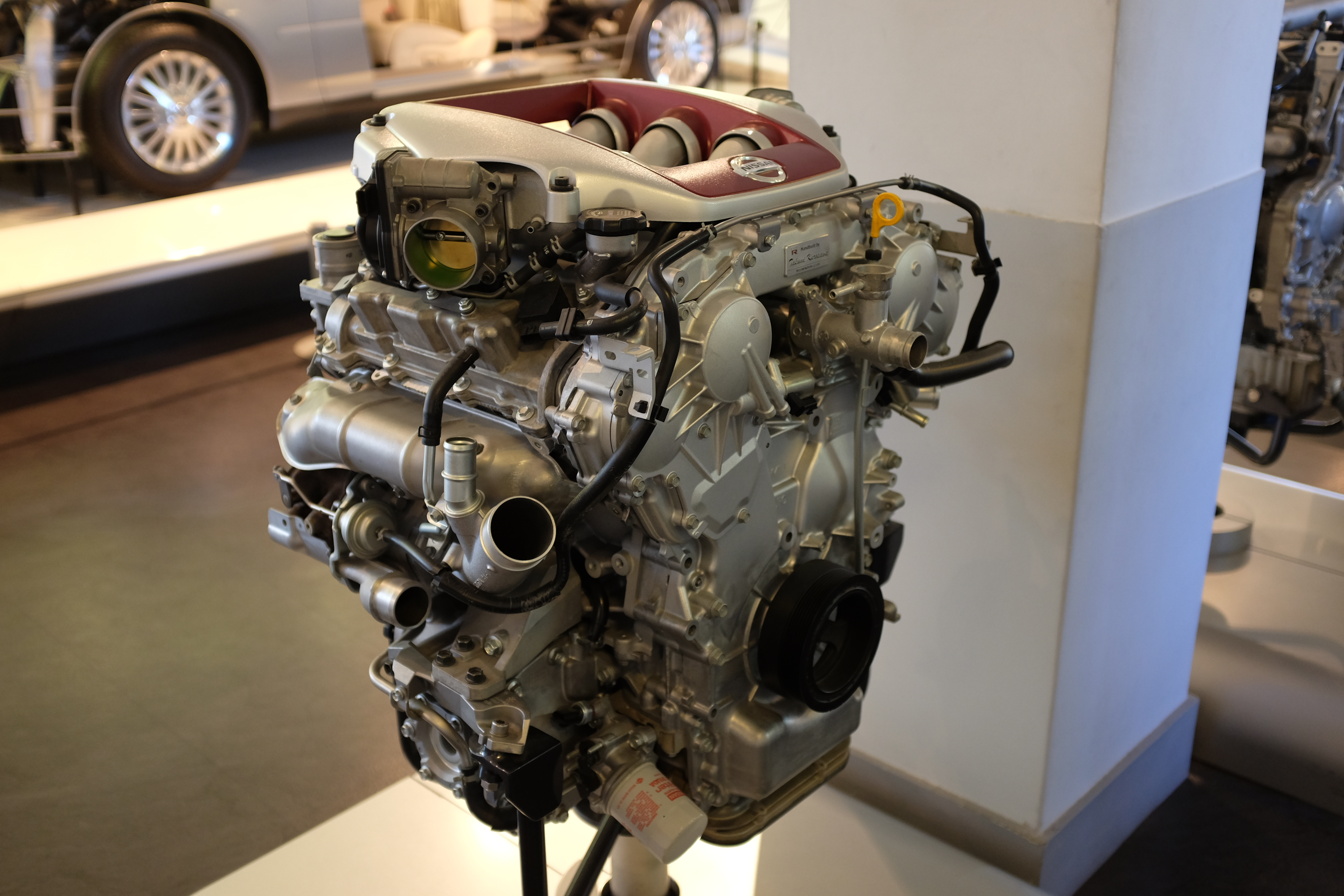 Nissan VR38DETT Engine at Nissan Engine Museum in Yokohama, Japan